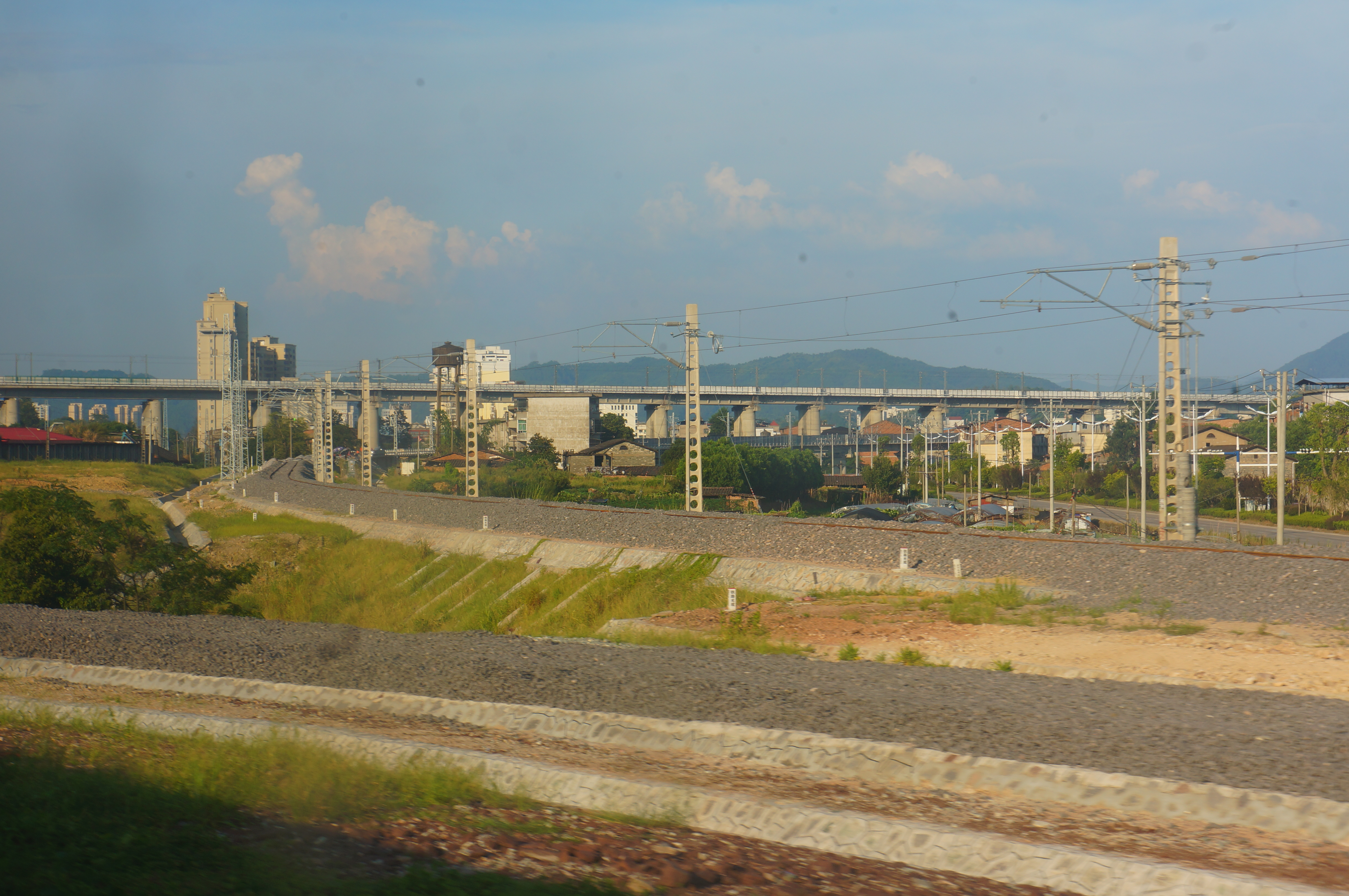 201708 New Yingtan-Xiamen Railway towards to Sanmingbei Station in Shaxian